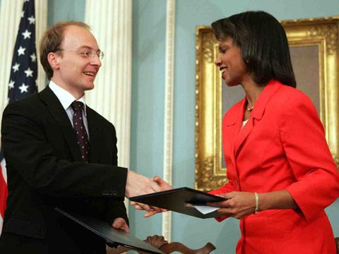 U.S.-Macedonia Declaration of Strategic Partnership and Cooperation